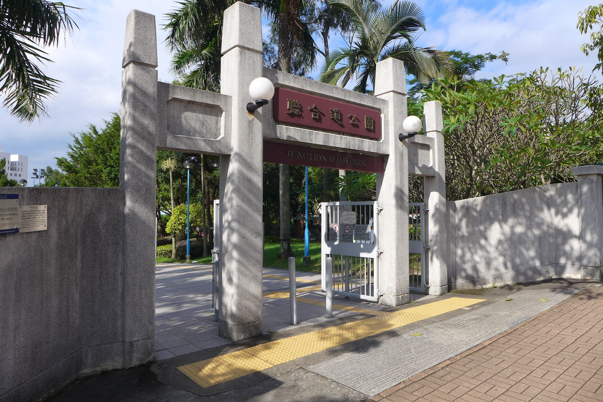 Junction Road Park Entrance Gate